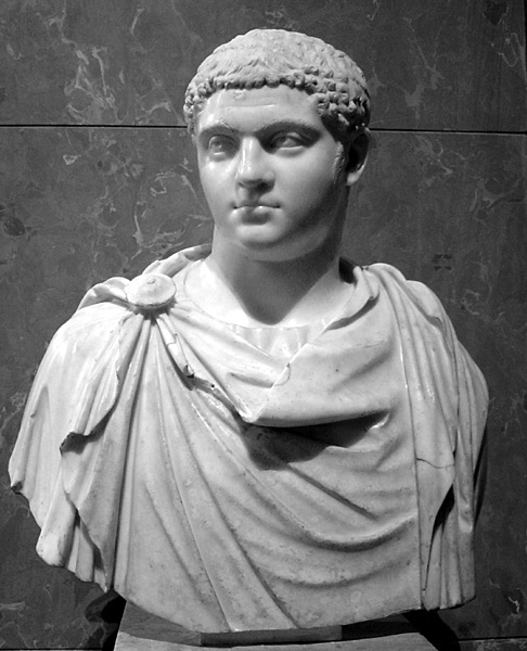 Publius Septimius Geta. Marble, Roman artwork, ca. 208 CE. From Gabies.